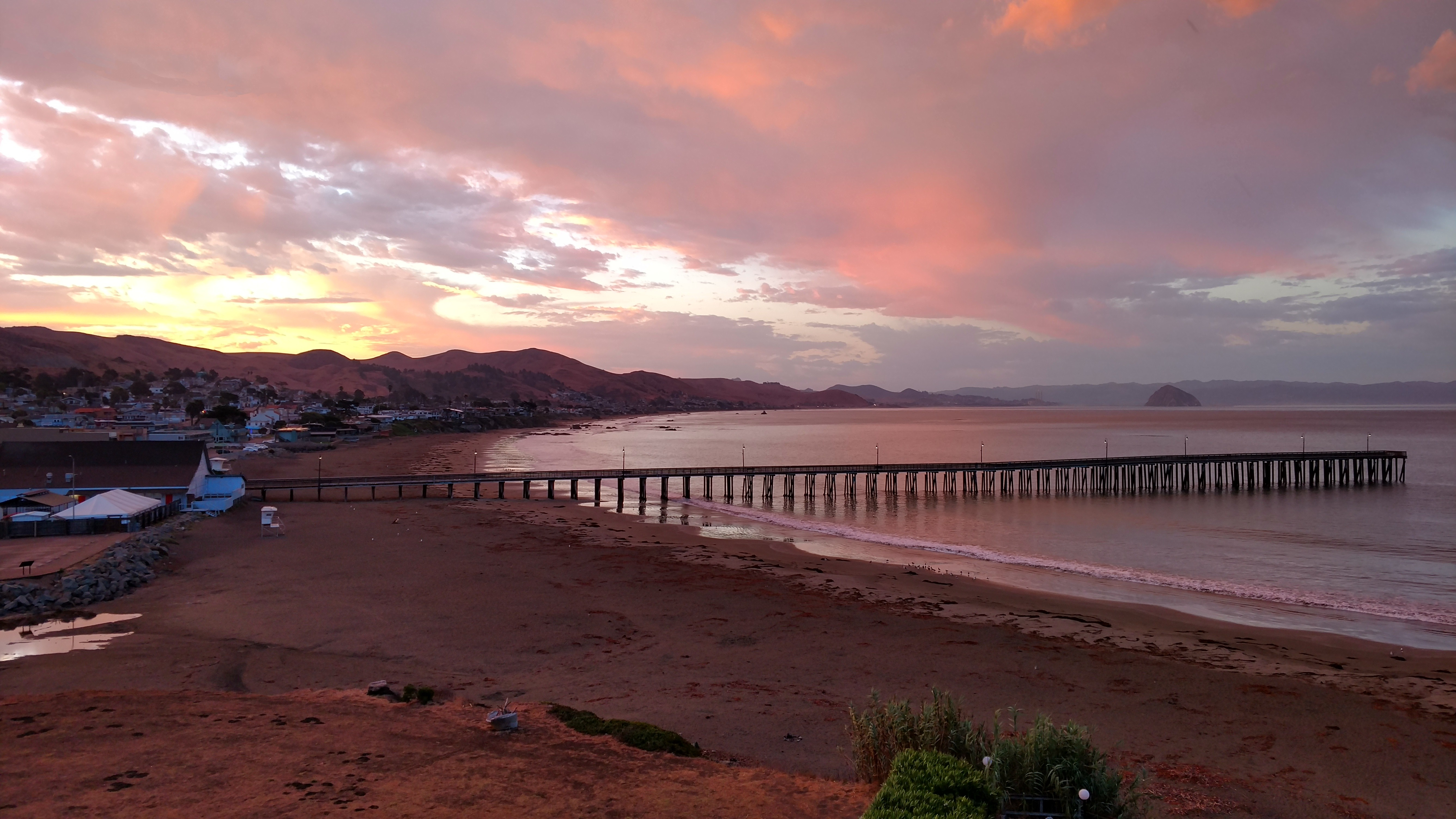 Image of a Cayucos State Beach at Sunrise in Cayucos, California